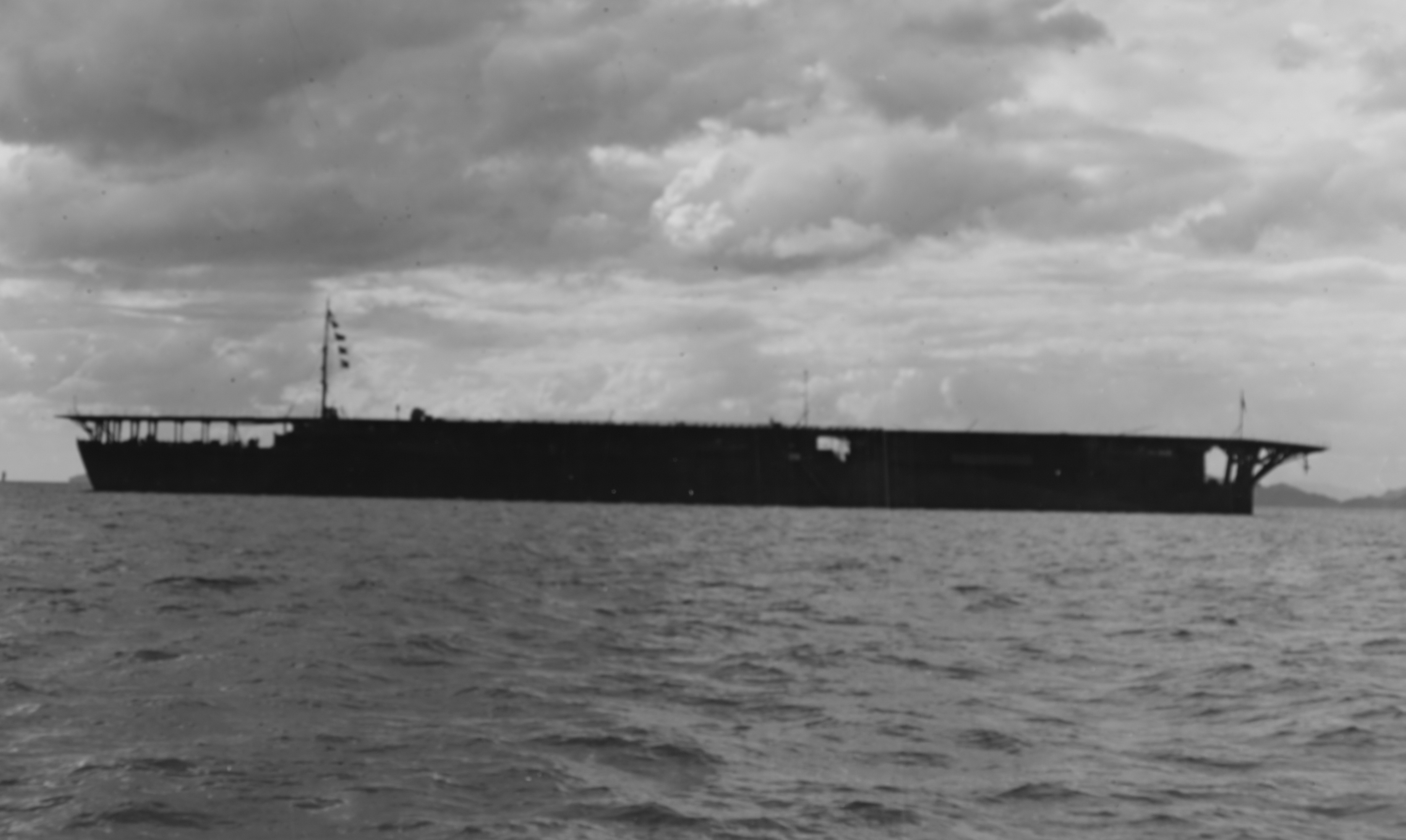 Japanese aircraft carrier Hosho off Kure, Japan, 13 October 1945. Hosho was then undergoing conversion to a repatriation transport. Official U.S. Navy Photograph, now in the collections of the National Archives. Removed caption read: Photo # 80-G-351904 Japanese aircraft carrier Hosho off Kure, Japan, Oct. 1945 Note lengthened deck in 1944 Originally uploaded to the English Wikipedia by User:David Newton at 15:11, 8 May 2004.